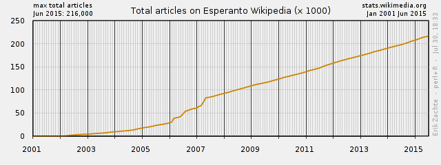 Development of the total article number on Esperanto Wikipedia